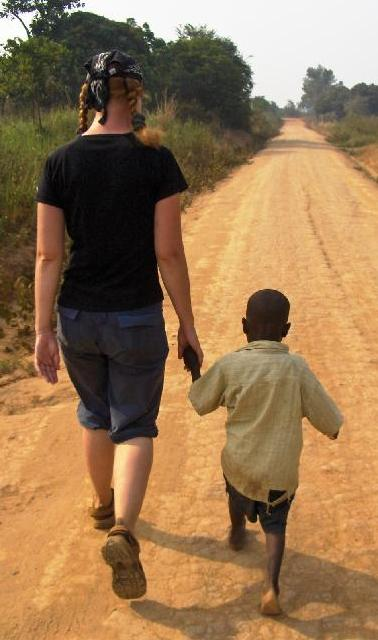 Picture of Maailmanvaihto ry exchangee in Africa